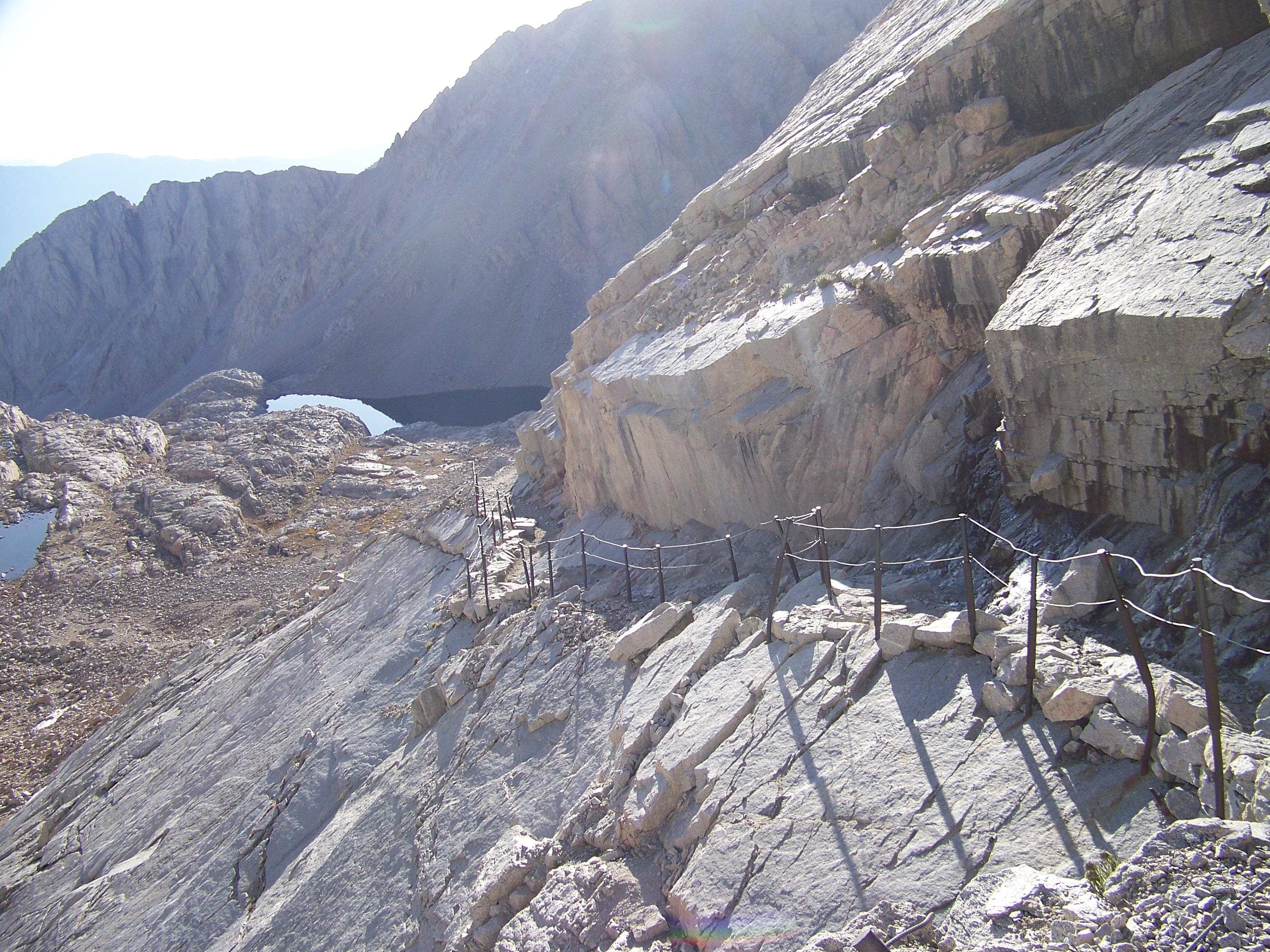 One section of the Mount Whitney Trail is protected by cable handrails because a fall would be dangerous onto the smooth rock slabs below.